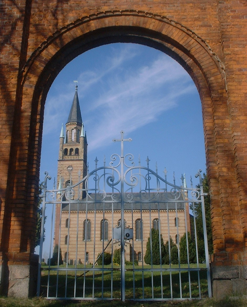 Church in Fehrbellin-Langen in Brandenburg, GermanyObject location52° 50′ 27.23″ N, 12° 48′ 13.77″ E